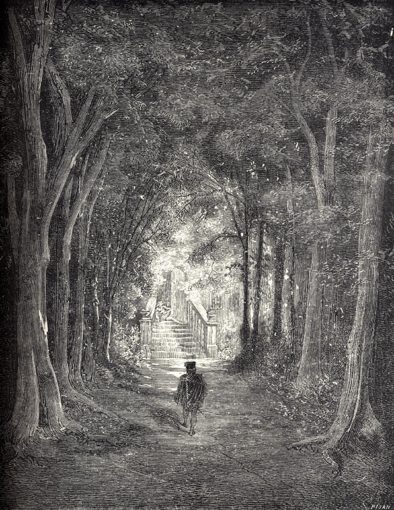 The Prince walking into Sleeping Beauty's palace. from the book Les Contes de Perrault, an edition of Charles Perrault's fairy tales illustrated by Gustave Doré, originally published in 1862 (source). Link to the page with the illustration in an online eBook edition of the original book.